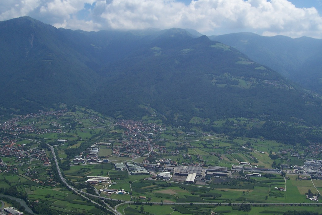 Gianico, Val Camonica